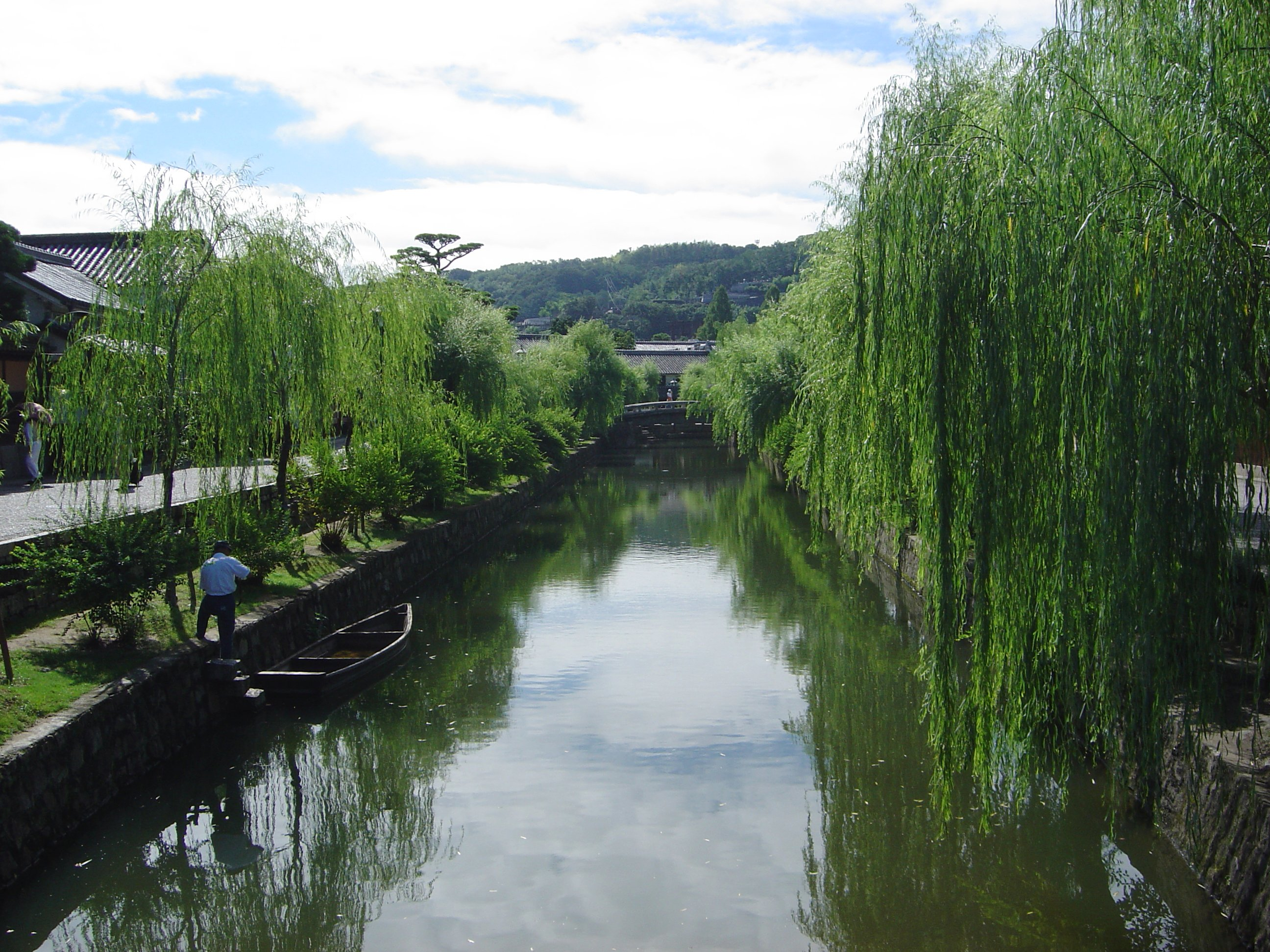 canals in Kurashiki, Japan